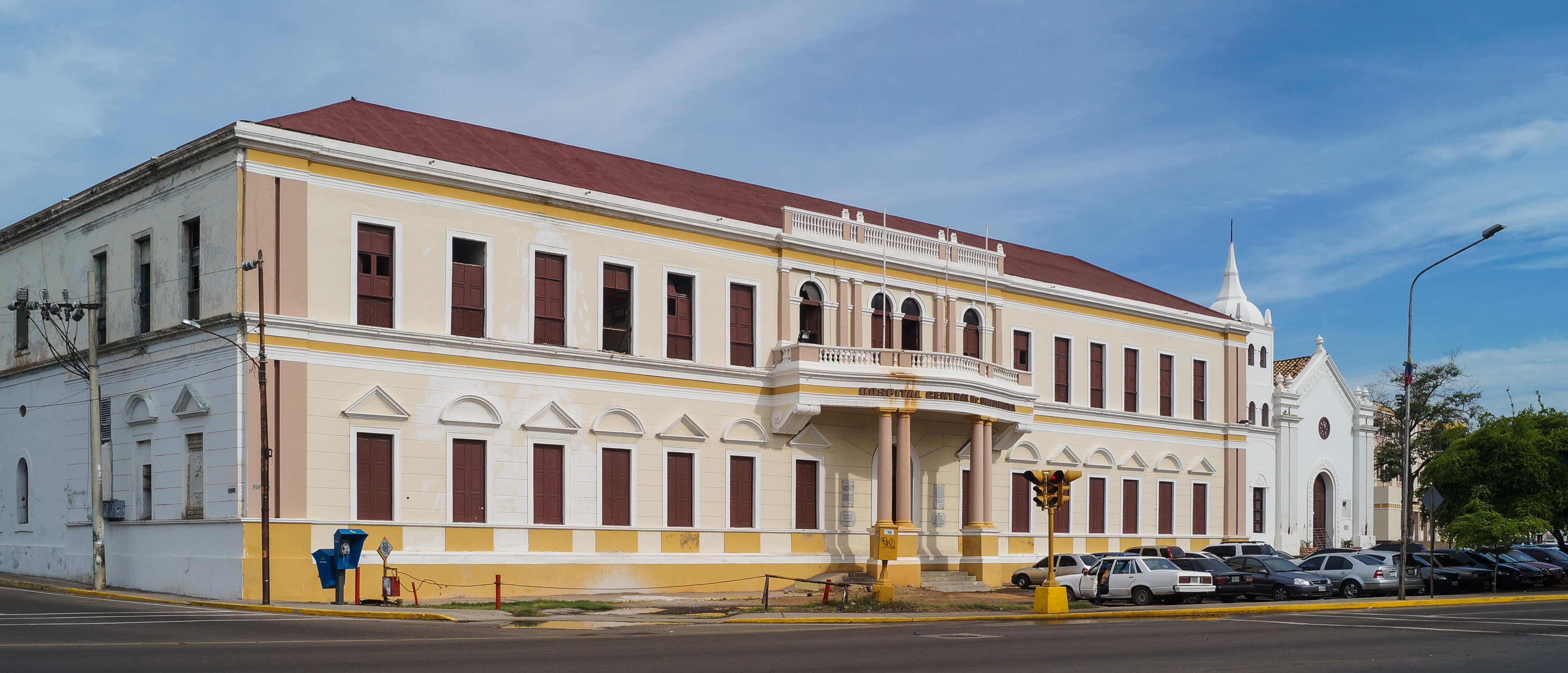 It is one of the health centers in the country's oldest functioning. There are data that suggest that seventeenth-century building (approx. in 1608), initially rose chapel of Santa and then gave way to the hospital, next to the religious building. Is building has had several names with the passing of the years, including Santa Ana Hospital, House Charities and its present name Central Hospital Doctor Urquinaona. The original structure was taken over and remodeled in early 1865 and then rebuilt in 1910. By 1926 it was rebuilt agregándosele two floors. Located at Av. El Milagro. Maracaibo.